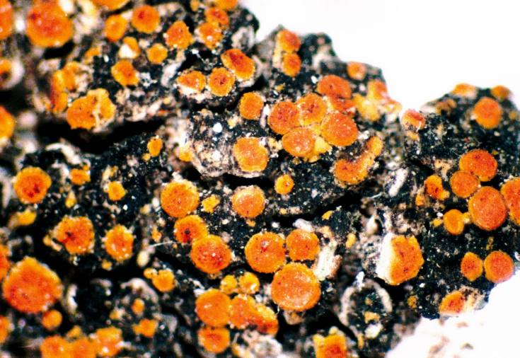 Caloplaca flavorubescens (Huds.) J.R. Laundon, 1976 (photograph of a herbarium specimen taken through a dissecting microscope (x40) showing apothecia with dark orange disks and pale orange margins) Growing on asbestos shingles on the house roof of Elmer Worthley at Bonita Avenue, Owings Mills, Baltimore County, Maryland, USA; collected and identified by Elmer G. Worthley (No. LH-229, 30 Apr 1977); specimen is now in the Lichen Herbarium of the New York Botanical Garden.